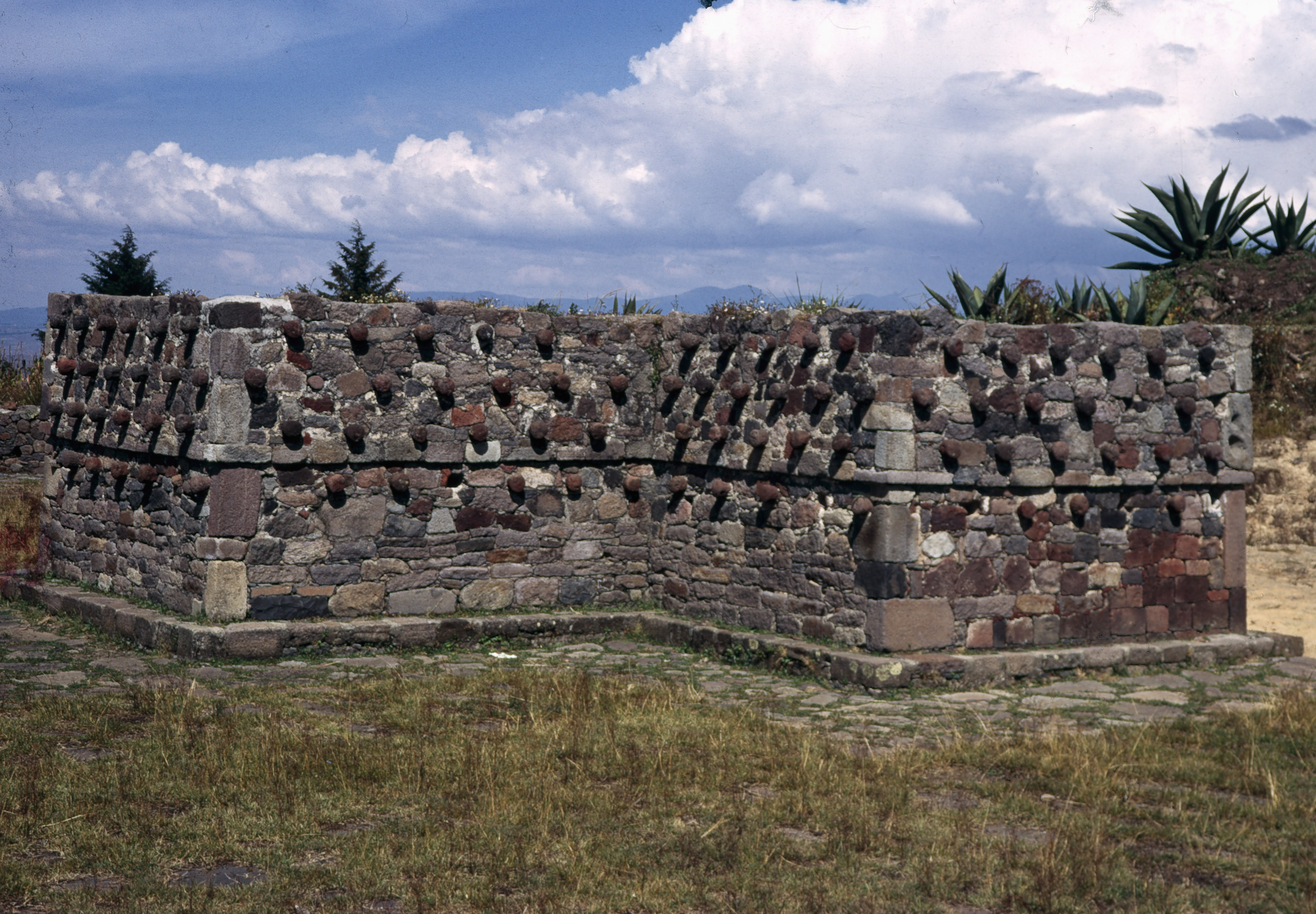 Calixtlahuaca, Estado de México, Mexico: Tzompantli